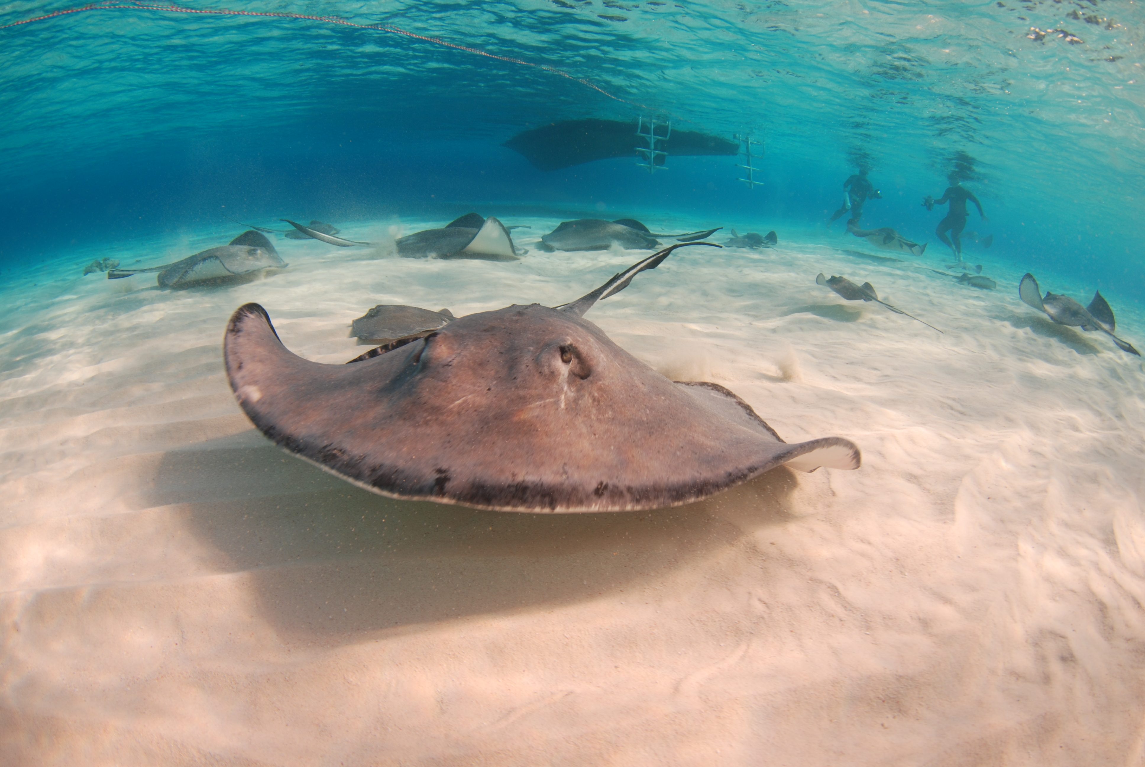 American Stingray.